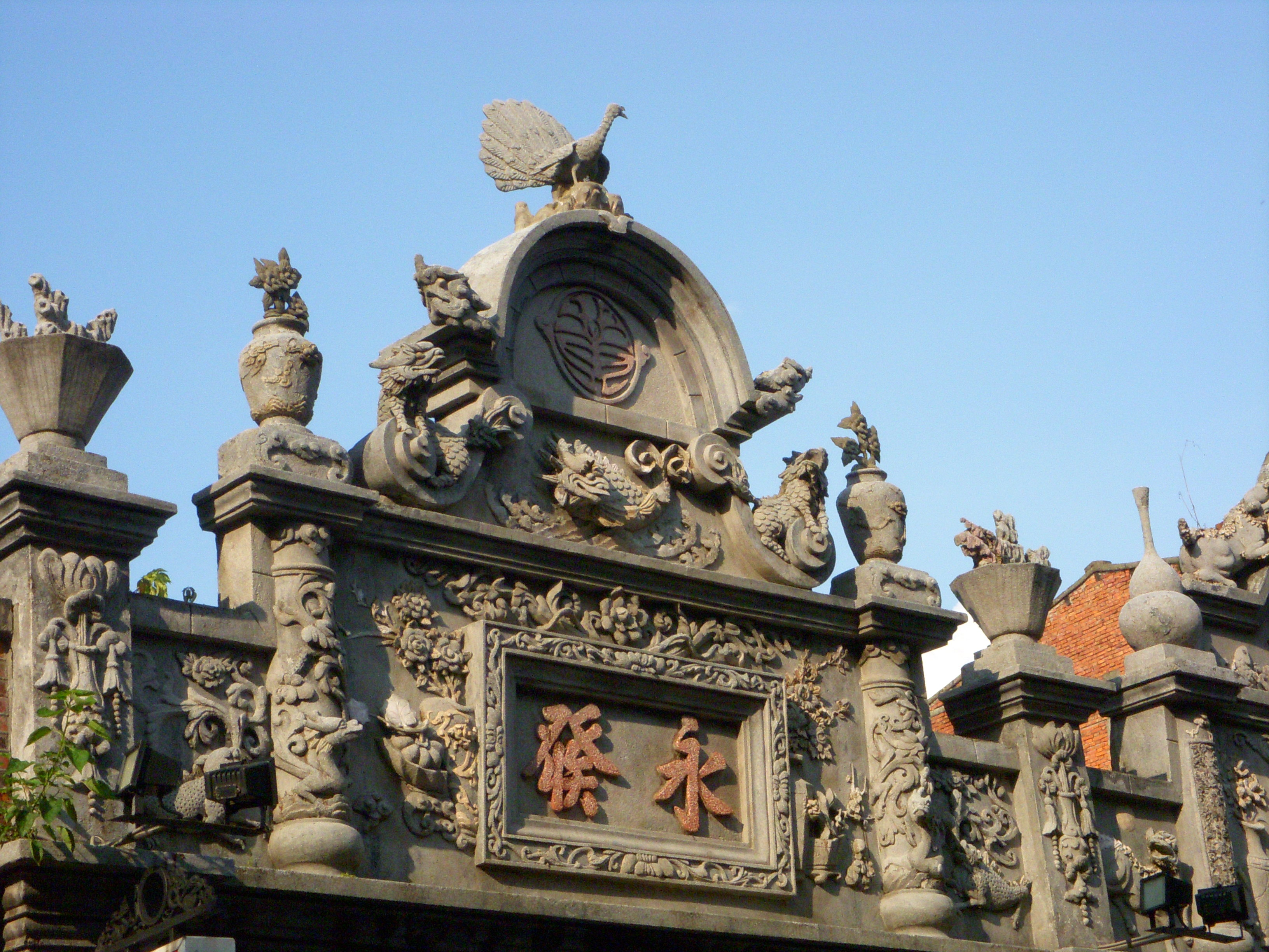 Yongfa